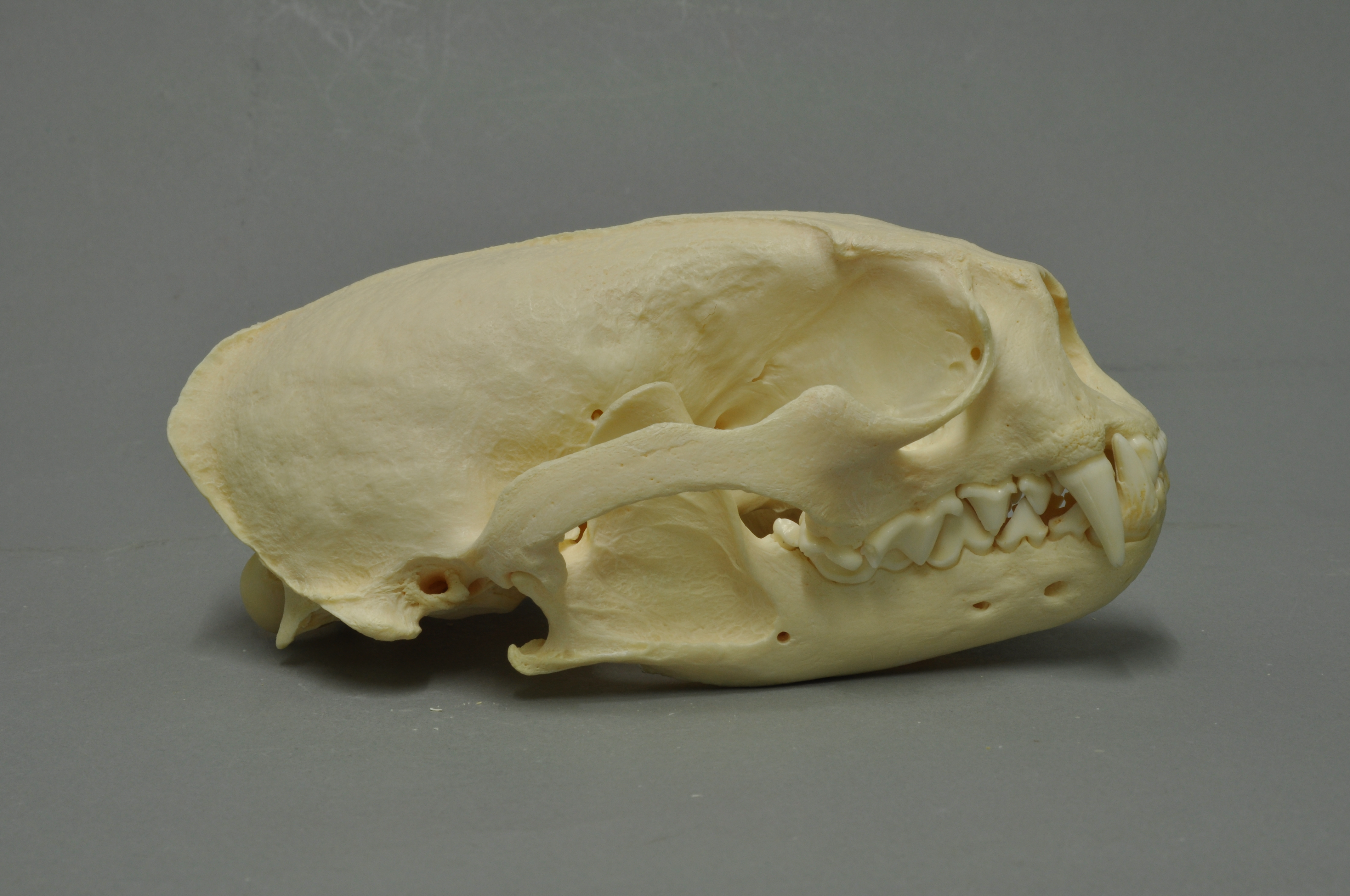 Giant otterPteronura brasiliensis, skull, Coll. Museum Wiesbaden